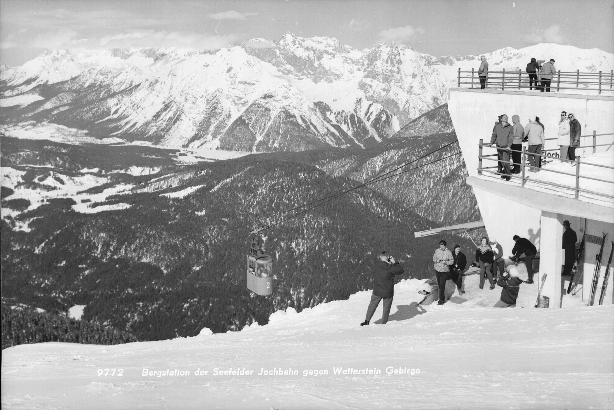 Mountain station of the "Seefelder Jochbahn" against the "Wetterstein".